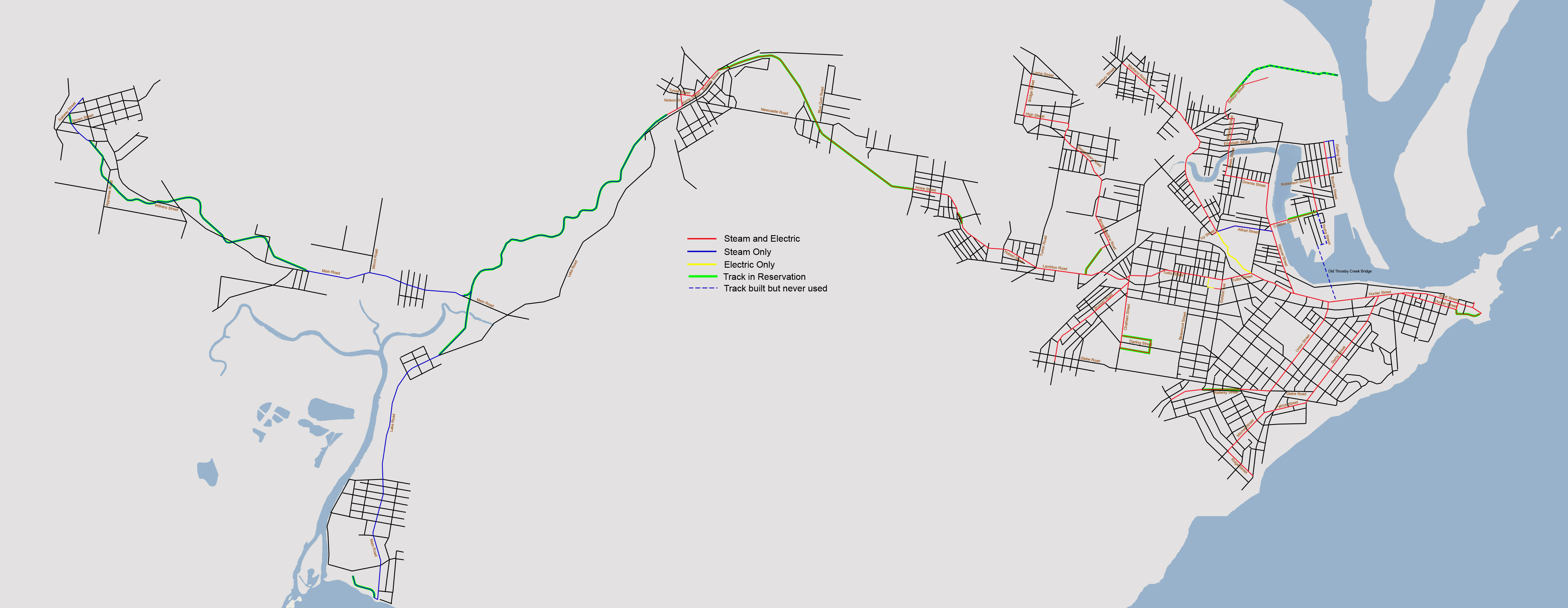 Map of the tramways of Newcastle, New South Wales